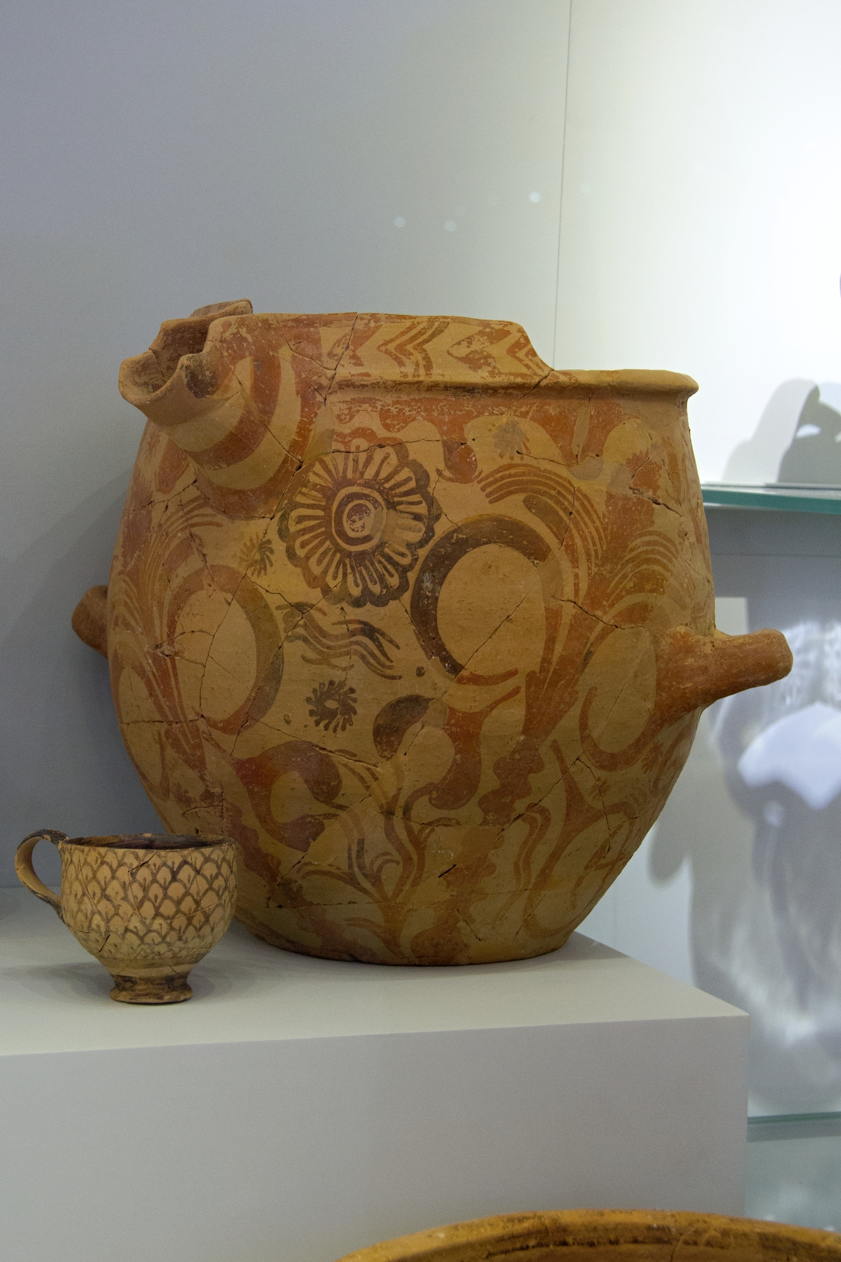 Vessel from Palace in Archanes, Cerete, 1600-1450 BC. Archaeological Museum of Heraklion, case 42.